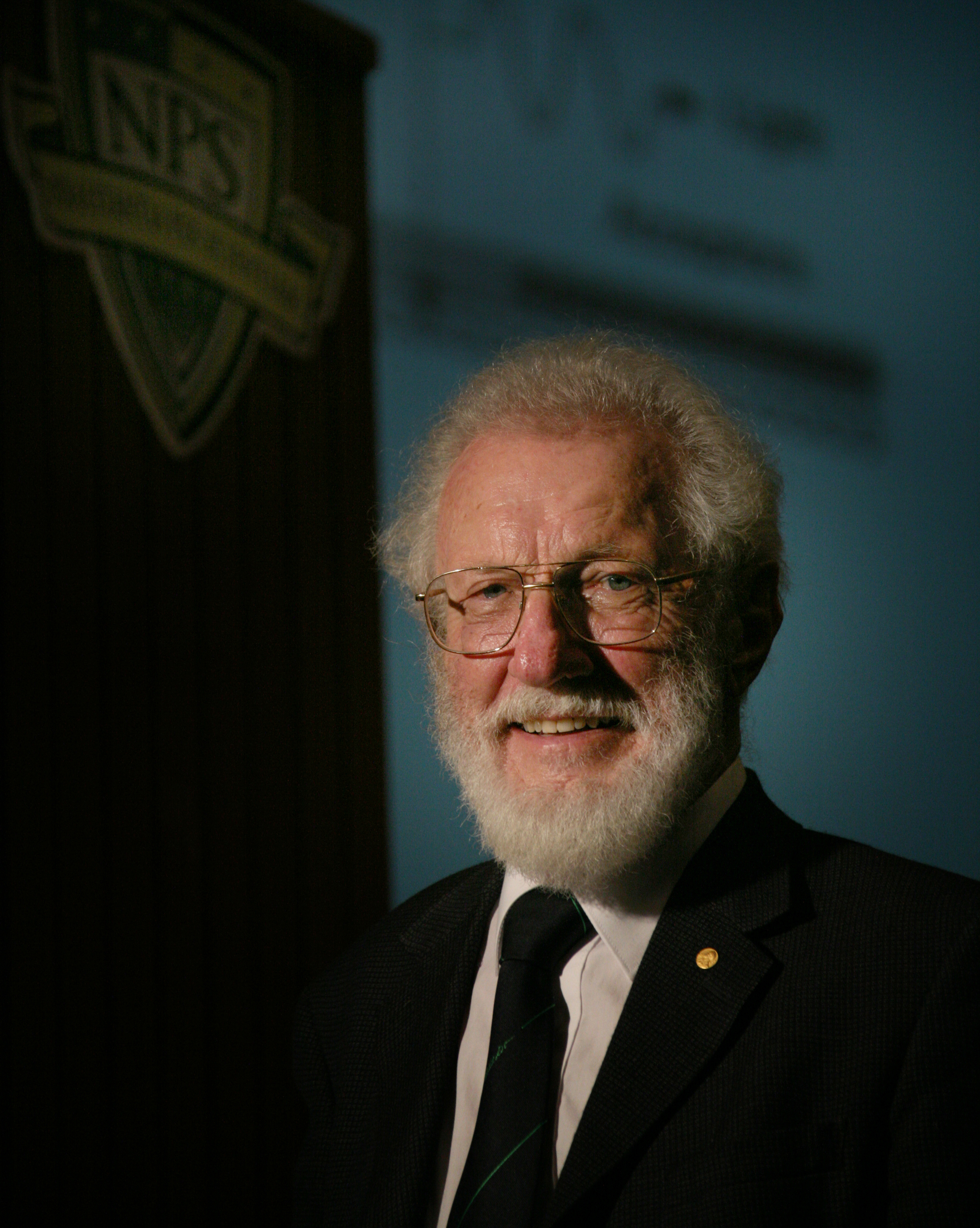 Dr. Herbert Kroemer